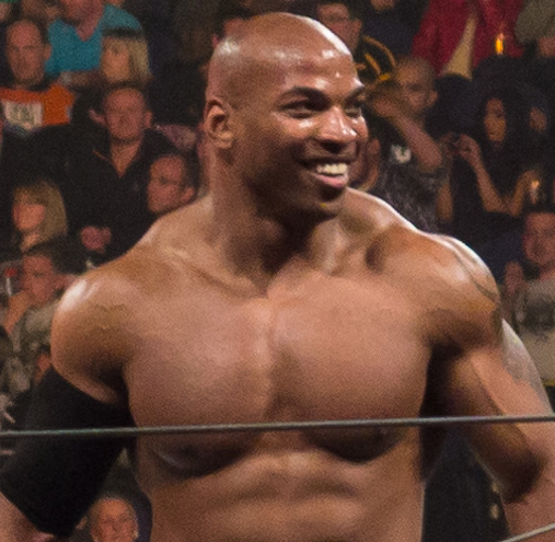 Percy Watson plays to the crowd before a match with Johnny Curtis at an NXT: Redemption taping in London, England. Originally taken April 17, 2012 at the O2 Arena.